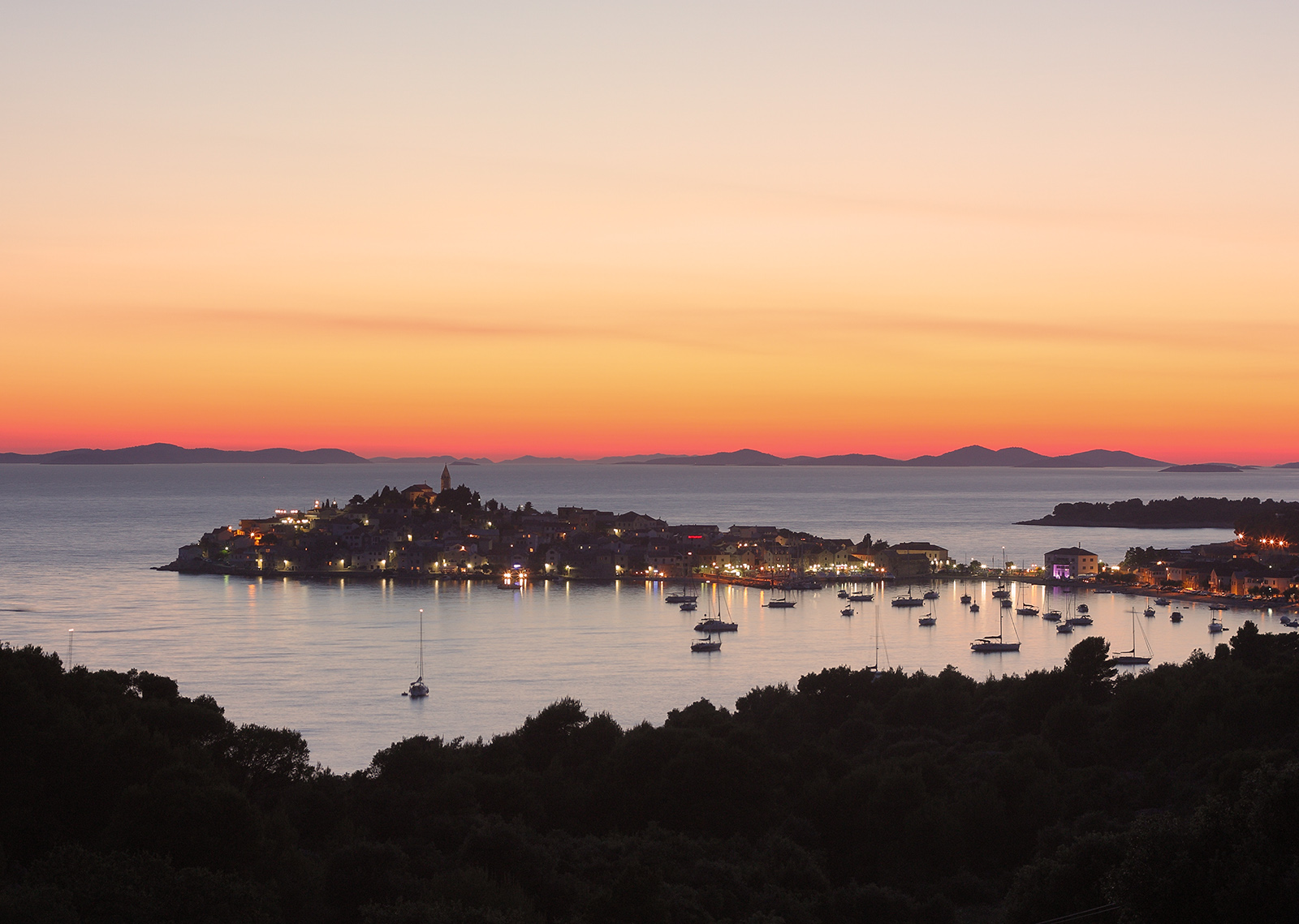 Dusk in Primošten, Croatia.